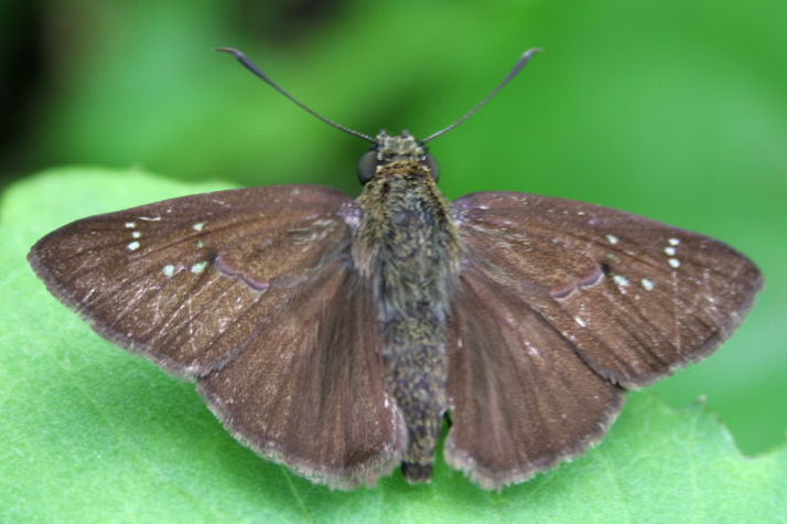 He_Bicolor Ace_12 September 2007 B up